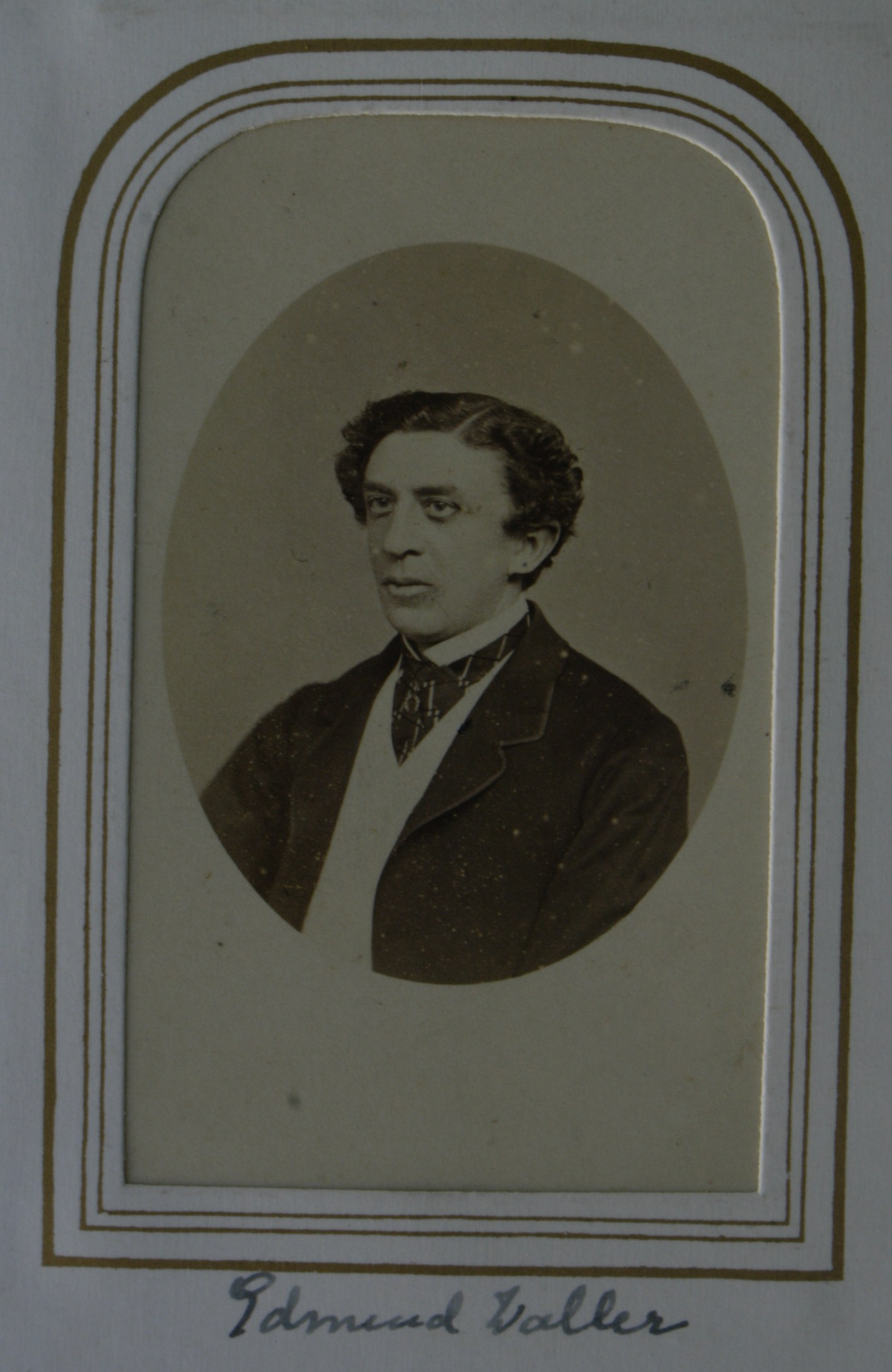 my photo (taken by me, R. de SalisRodolph (talk)), of a Carte de visite photo of Edmund Waller VI or VII (1828-98), JP, DL.